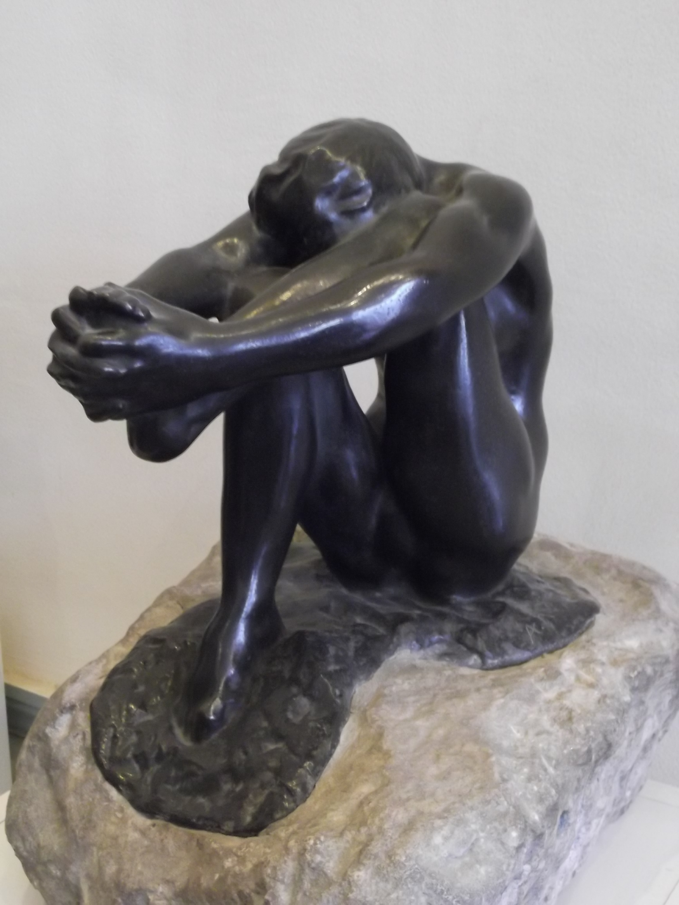 Sculpture in the Musée Rodin, Paris, France.